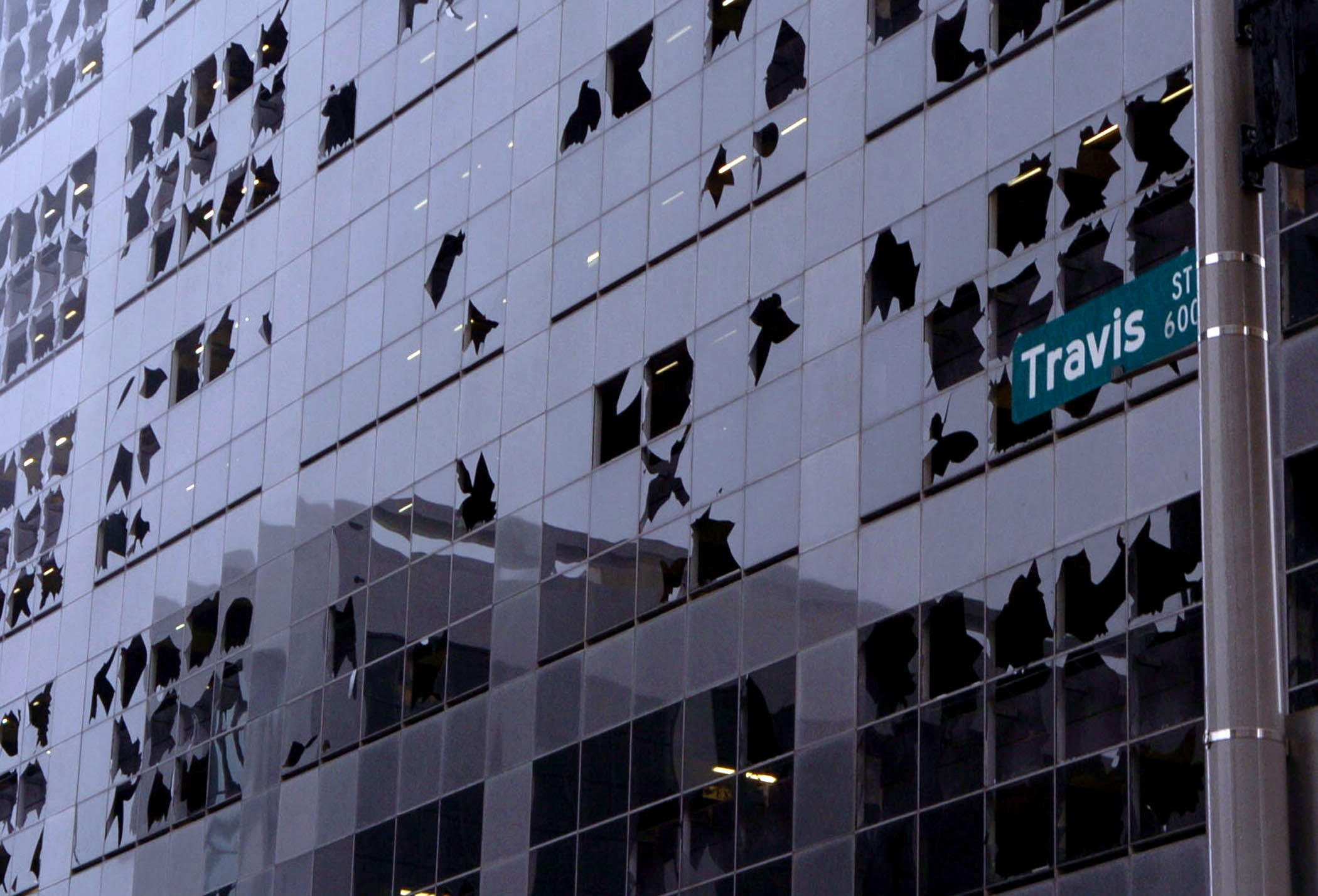 080913-N-8828S-020 Houston (Sept. 13, 2008) Windows in high-rise building in downtown Houston, Texas are shattered by winds from Hurricane Ike after the storm comes ashore in the Texas gulf coast early Saturday morning, Sept. 13 as a major hurricane. The storm has left broken windows, flooded streets, and millions of Texans without power.